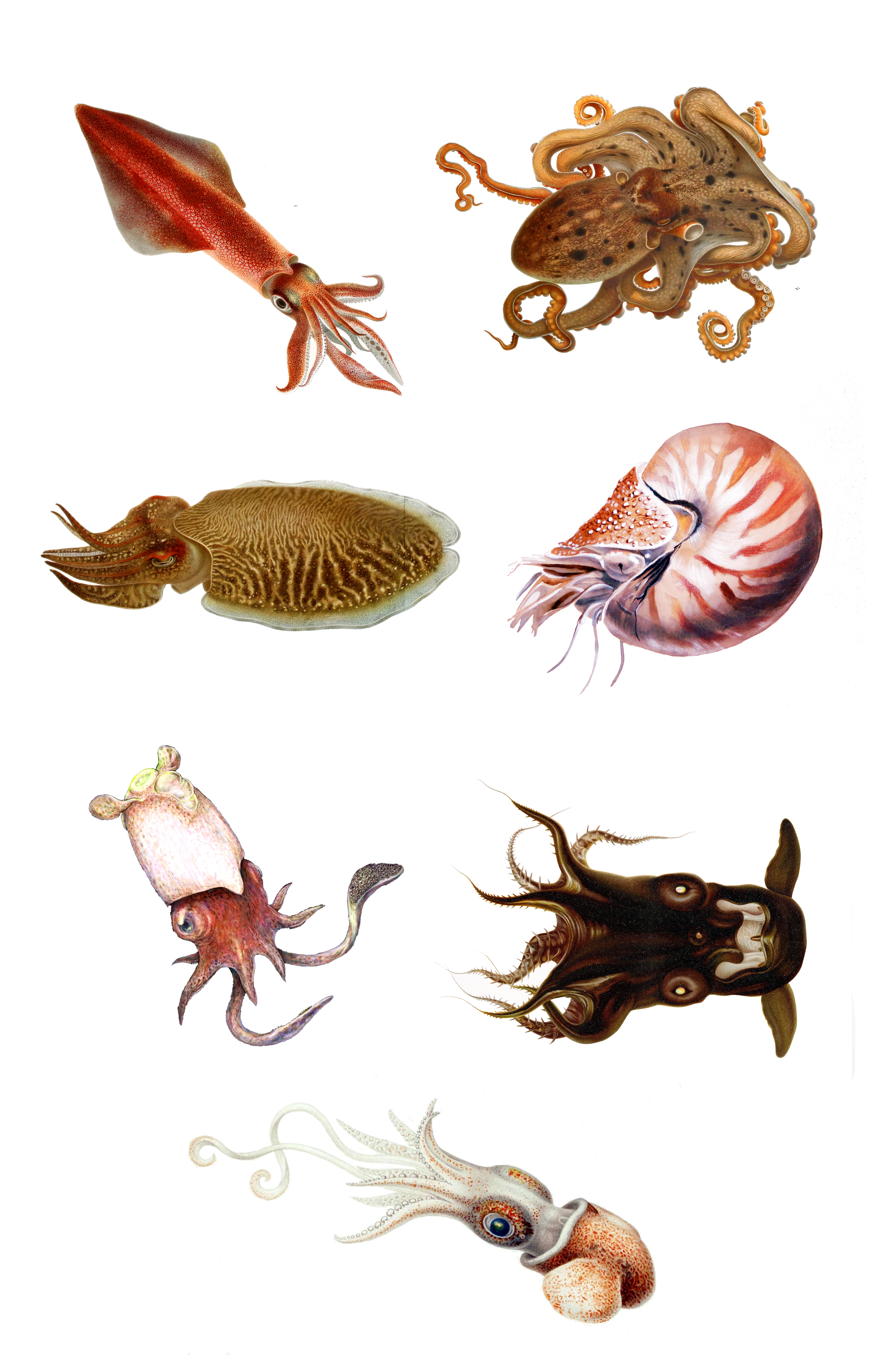 Orders of Cephalopods 1-Loligo vulgaris 2-Eledone moschata 3-Sepia officinalis 4-Nautilus 5-Spirula spirula 6-Vampyroteuthis infernalis 7-Austrorossia mastigophora